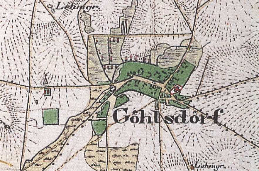 Göhlsdorf, Gem.Kloster Lehnin, Lkr. Potsdam-Mittelmark, Brandenburg, Germany, Detail from the Urmesstischblatt Sheet 3642 Lehnin, drawn in 1839